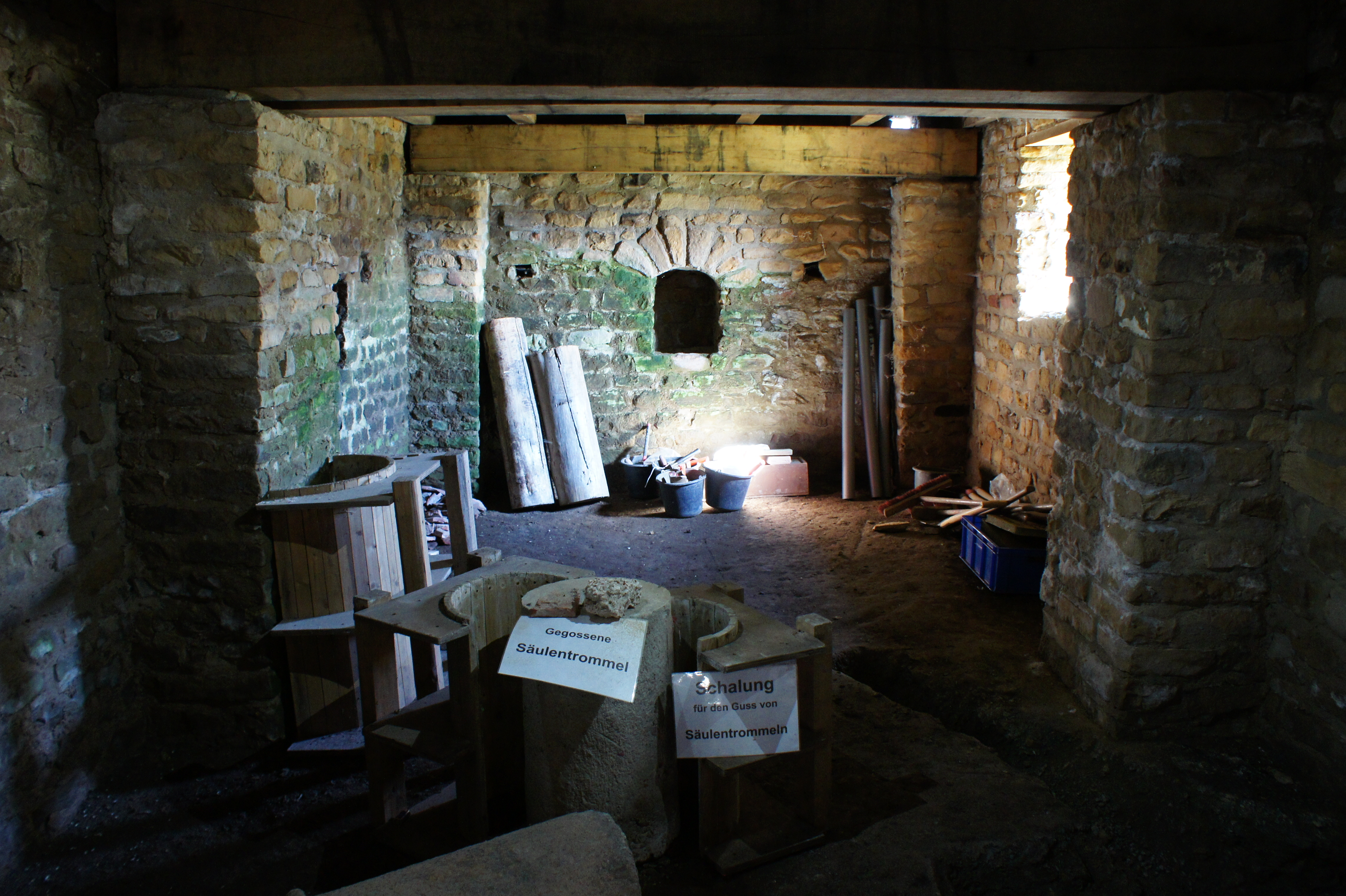 der Kellerraum unter dem Portikus